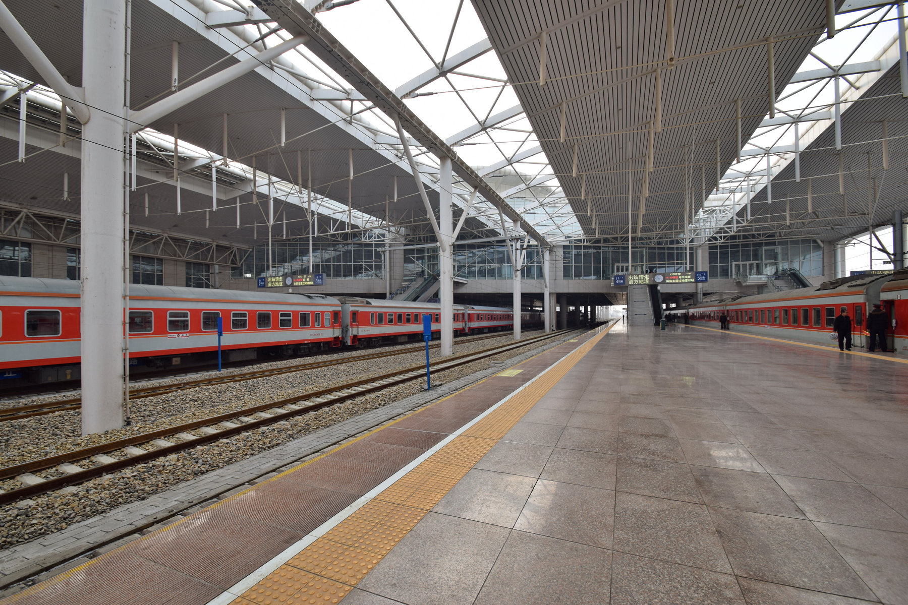 Platforms of Huhehaote Dong (Hohhot East) Railway Station